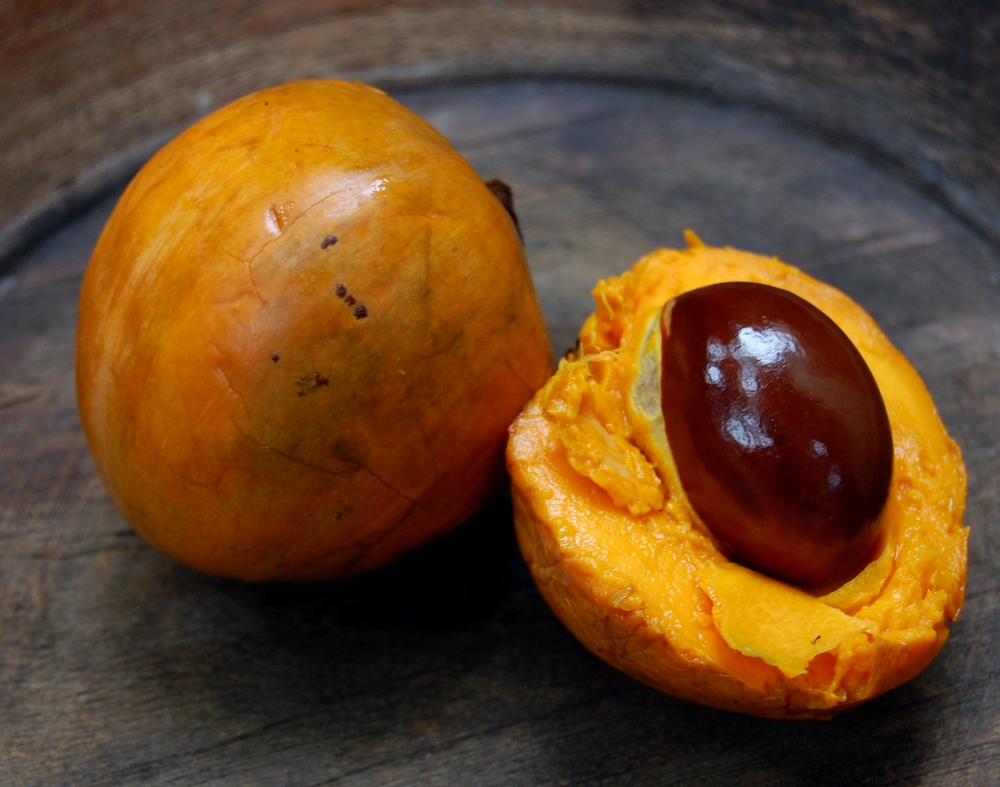 Pouteria campechiana fruits. From Ragunan Zoo, Jakarta.